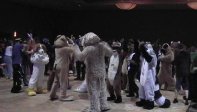 Thedance at Anthrocon 2005.